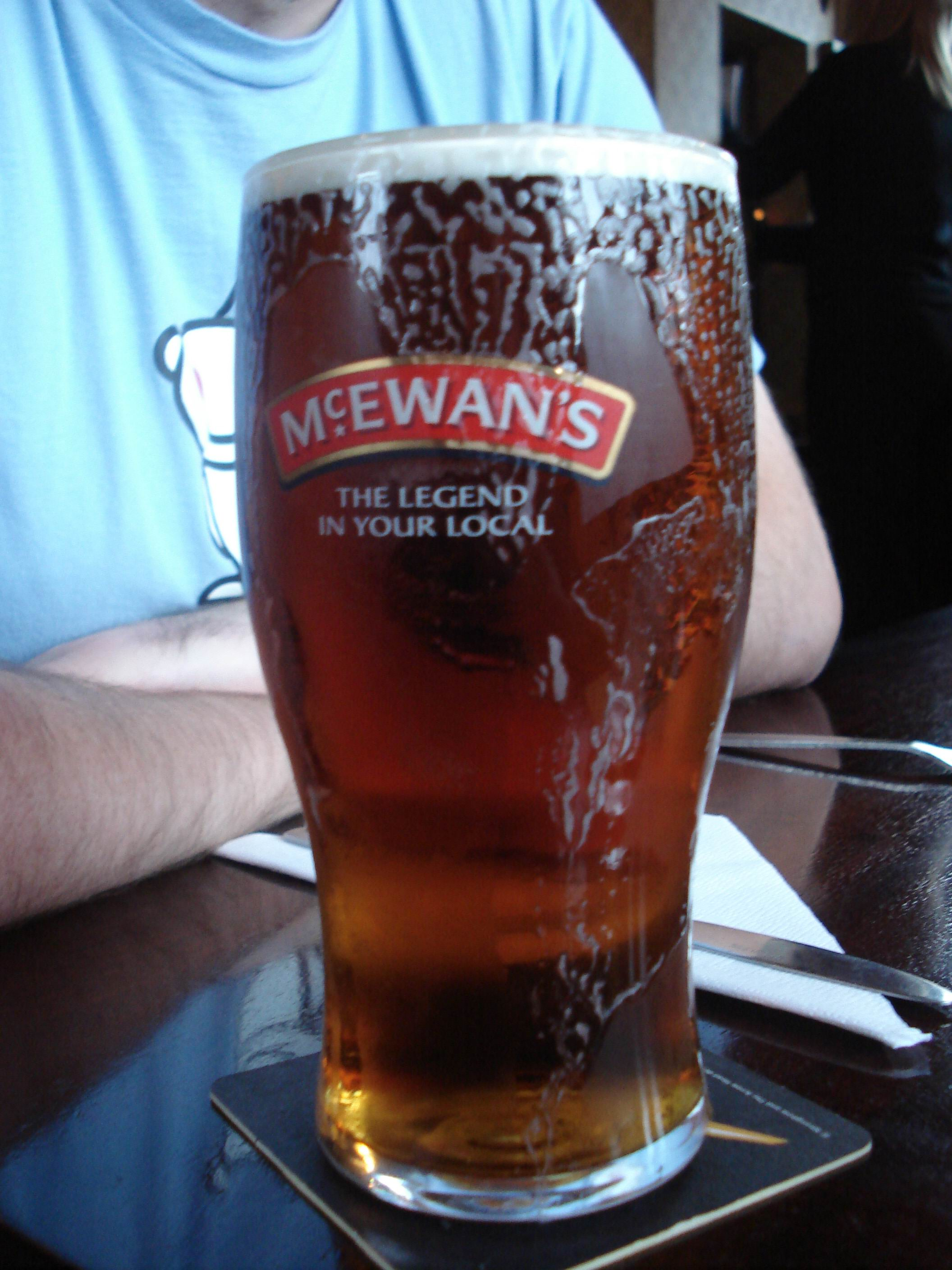 McEwan's bear glass